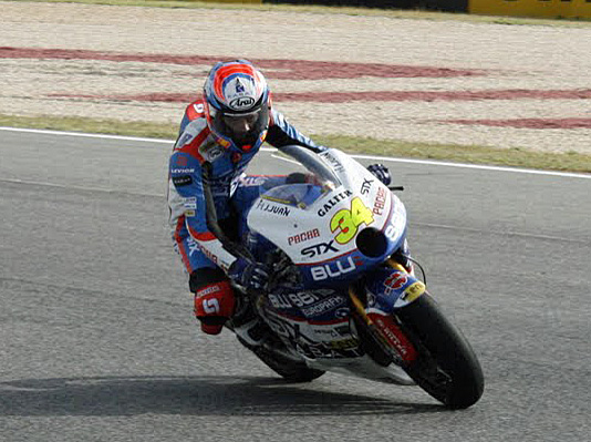 Esteve Rabat 2011 Estoril